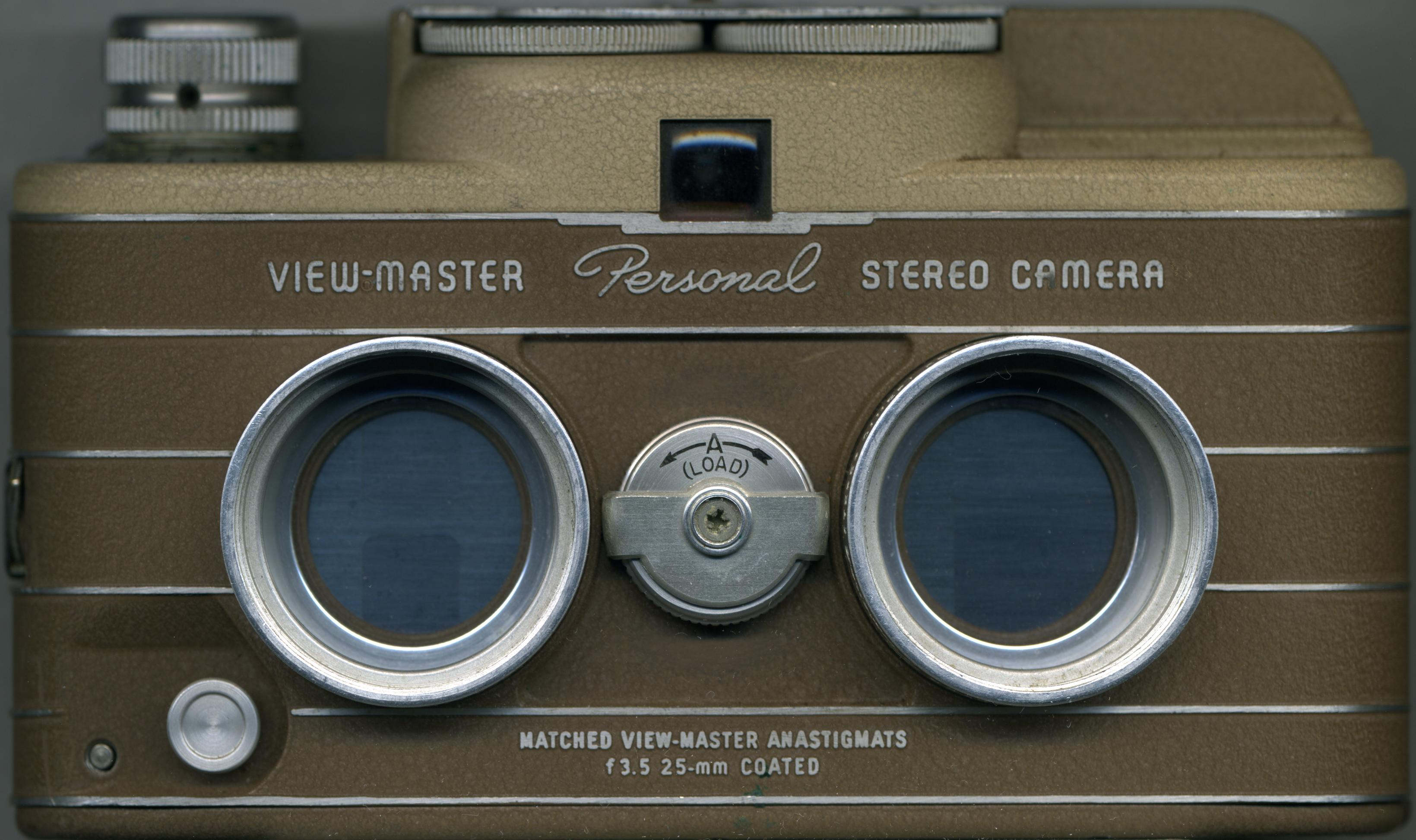 The View-Master Personal stereo camera. Note that the selector is in the "A" position.